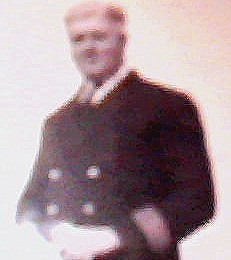 Family pic of Capt Dickman, died 1962 on Gwendoline Steers